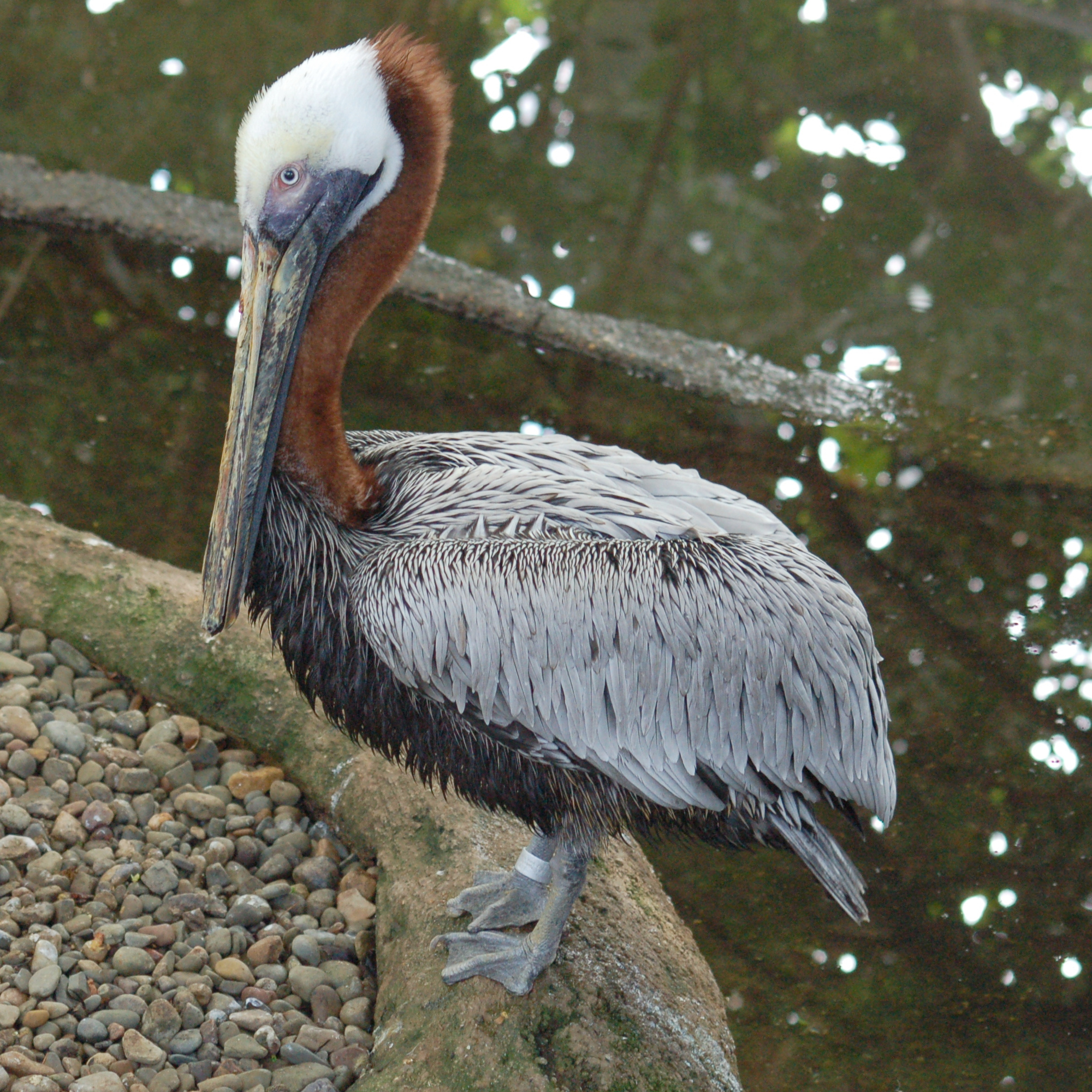 A photograph of the Brown Pelicanen (Pelecanus occidentalis en ). Photo taken at the National Aviary.